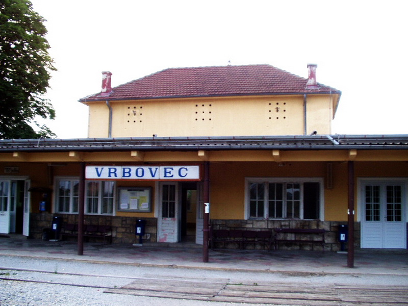 Vrbovec - Train Station